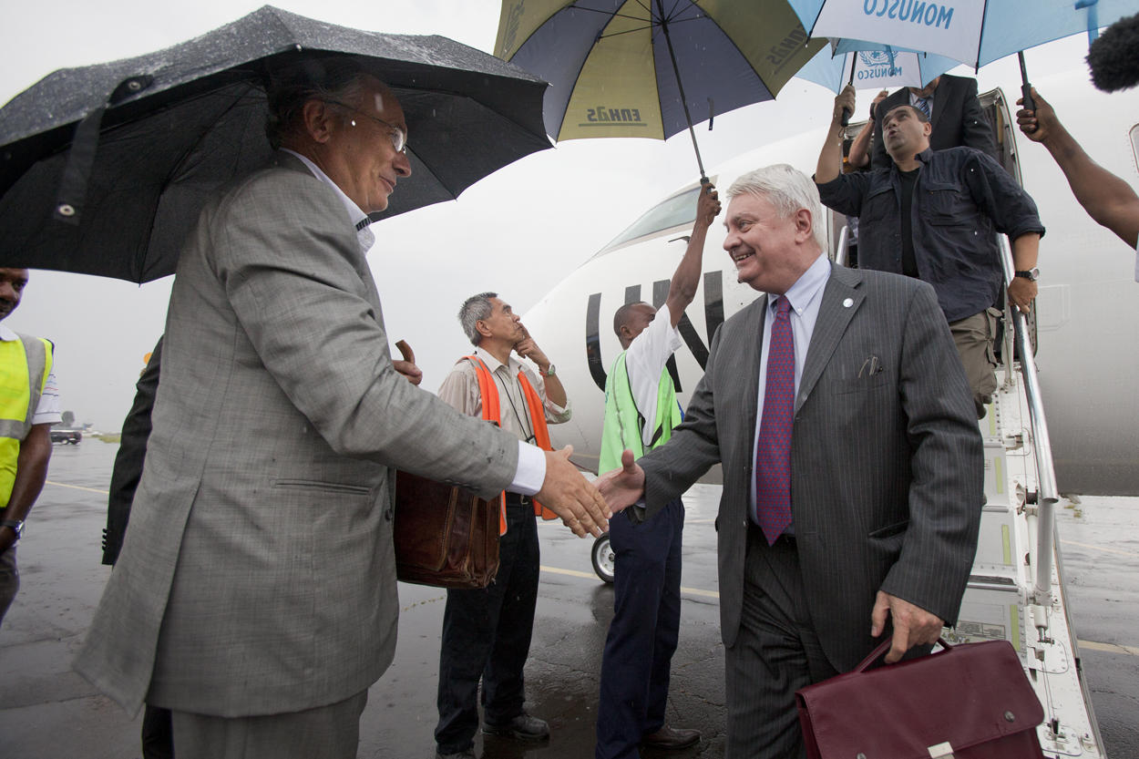 Under Secretary-General for Peacekeeping Operations, Herve Ladsous arrives in Goma , the 11th of September 2012. © MONUSCO/Sylvain Liechti